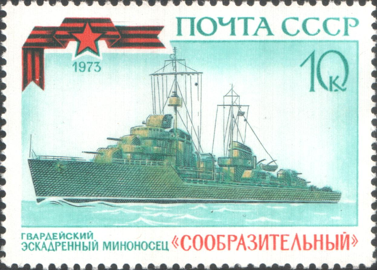 USSR stamp